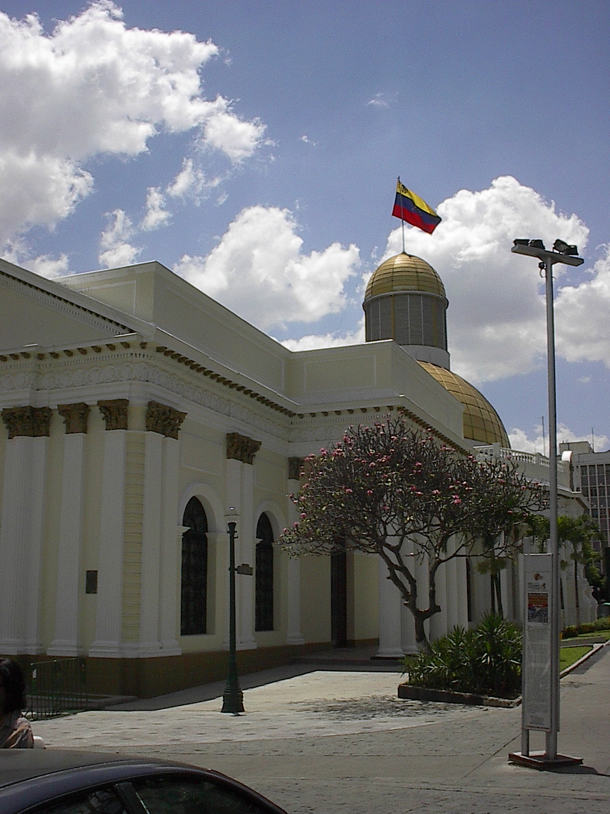 The National Assembly building in downtown Caracas.National Assembly, Caracas, Venezuela